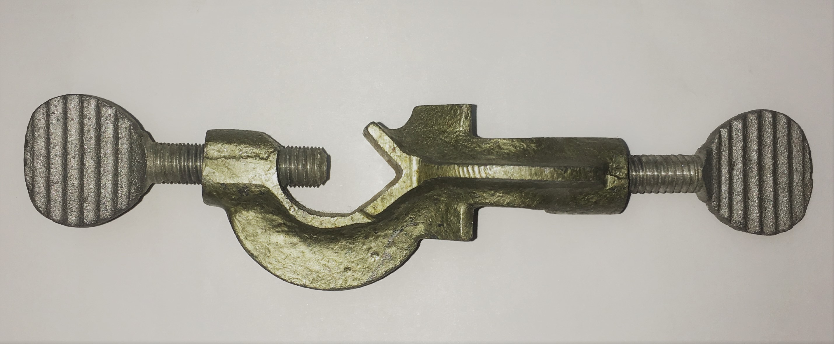 Right angle clamp holder